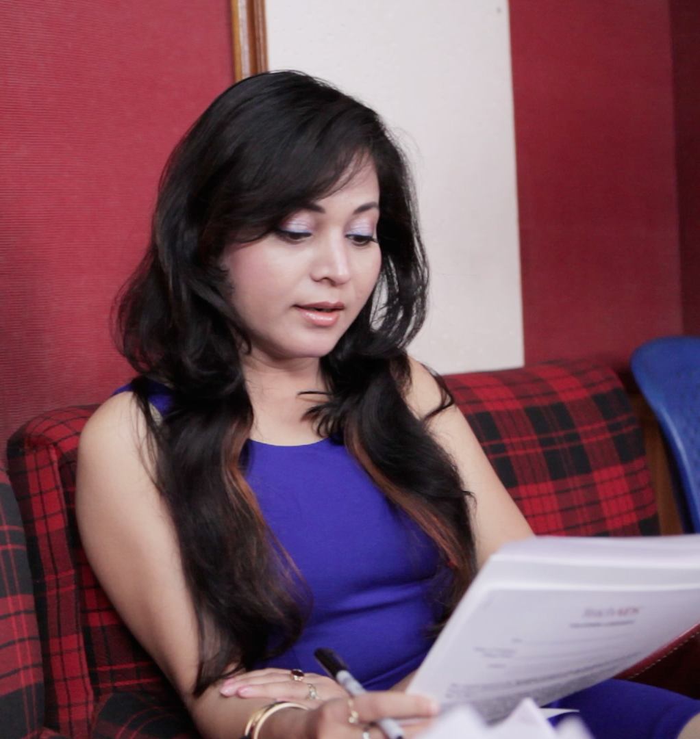 Actress Zerifa Wahid reviews the script before recording her voice for the Axomiya language version of the TeachAIDS animation at Auditek Digital Recording Studio in Guwahati, Assam.